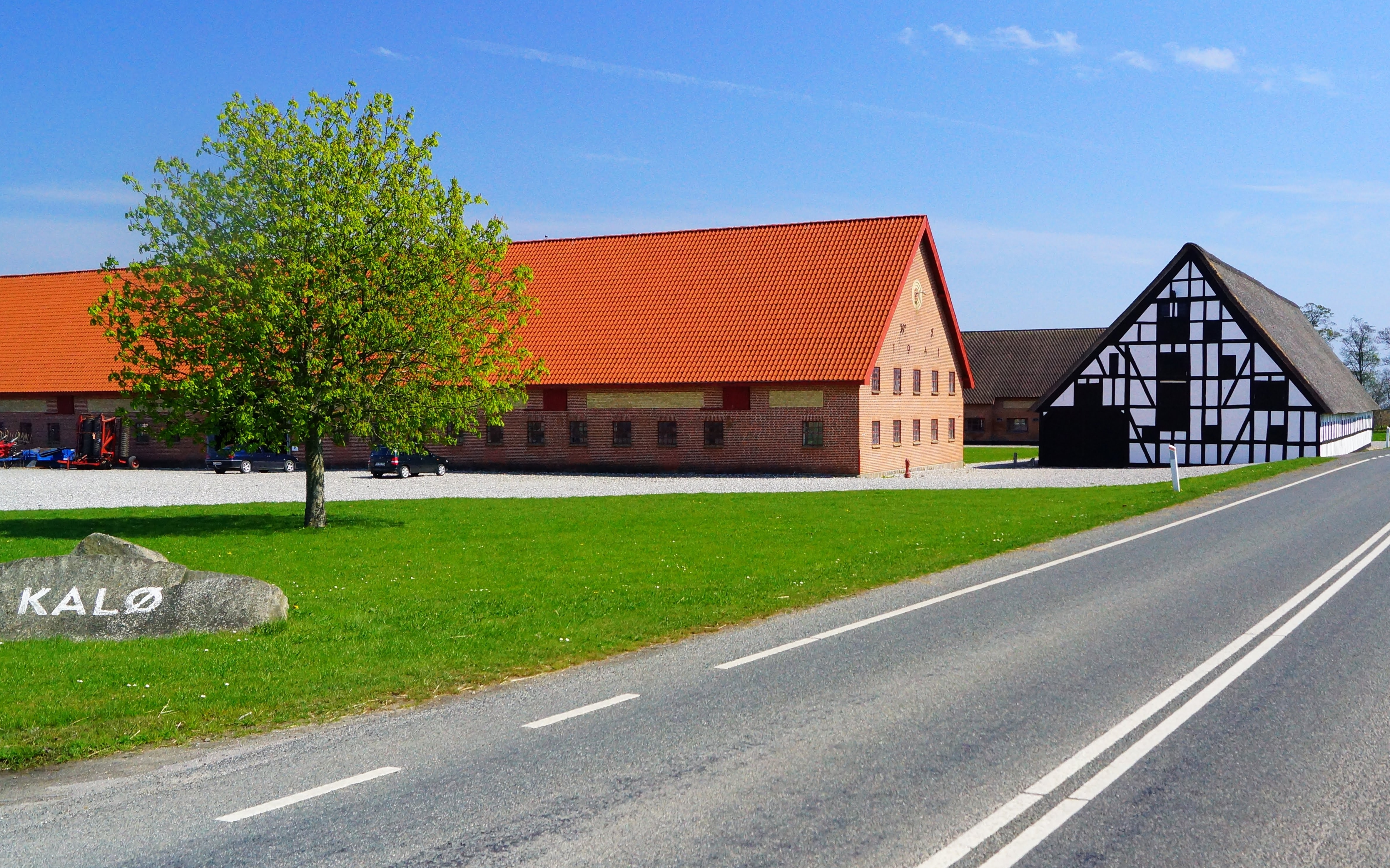 Restored Farm buildings at Kalø, by Sebastian Nils